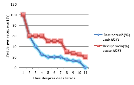 Efecte de l'AQP3 en la recuperació d'una ferida